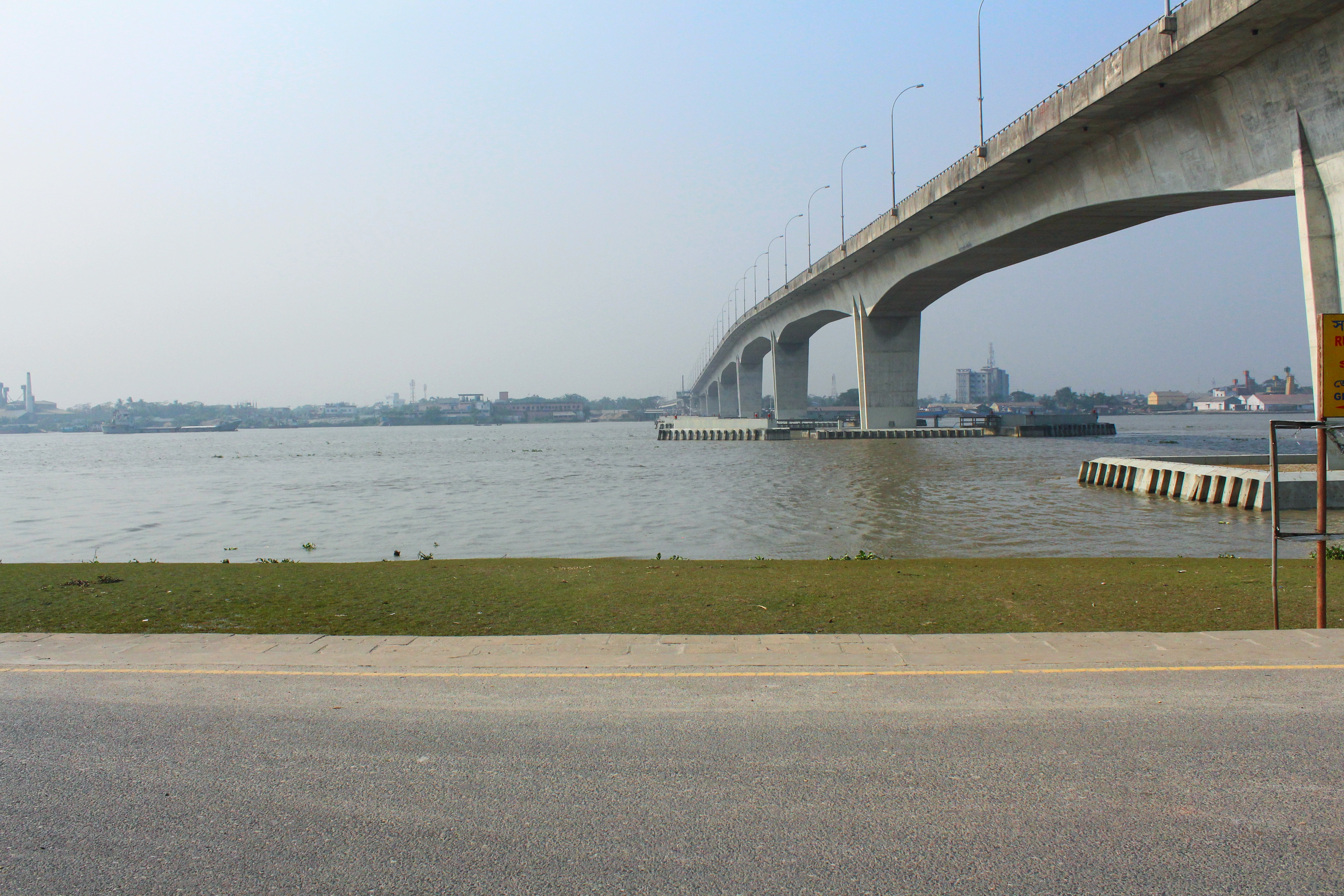 Khan Jahan Ali Bridge , better known as Rupsha Bridge is situated over Rupsha river in Khulna district. Its total length 1.6 KM and width 16.48 meter.